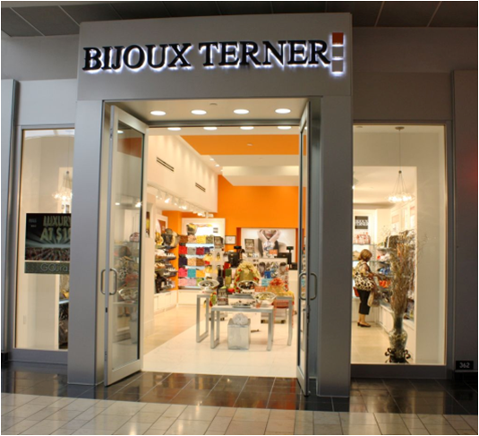 The entrance to the Bijoux Terner store at Miami International Mall in Miami, FL.